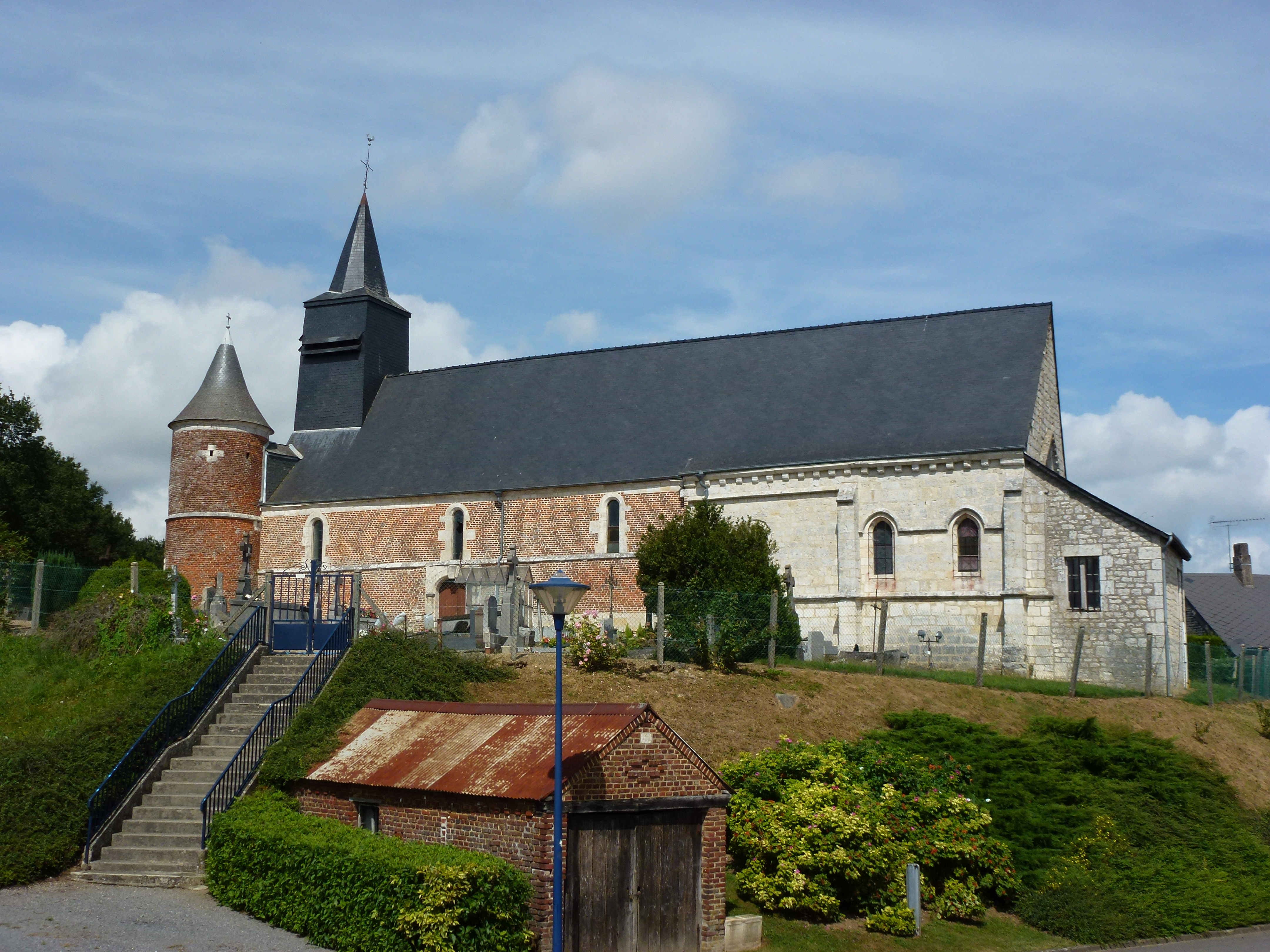 Logny-lès-Aubenton (Aisne) église Saint-Rémi, vue latérale